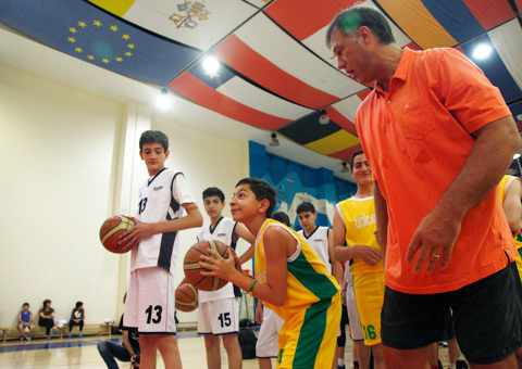 Sarunas Marciulionis during his trip to Armenia training local young kids